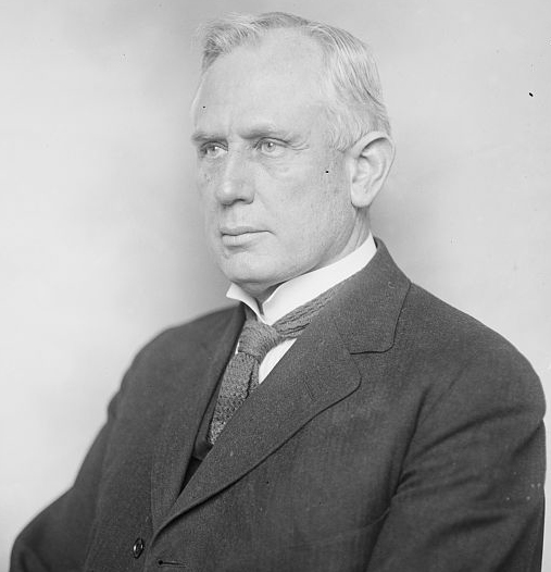 Kentucky Congressman Ben Johnson